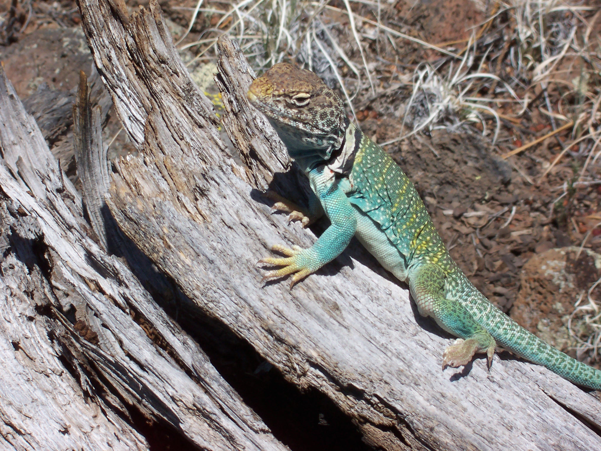 Collared Lizard (Crotaphytus collaris) in El Malpais Natl Monument